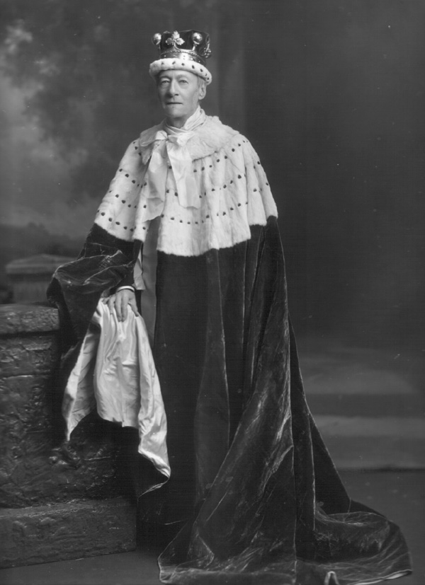 Henry Ulick Browne, 5th Marquis of Sligo